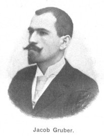 Photograph of Jakob Gruber (1864-1915), Austrian sculptor